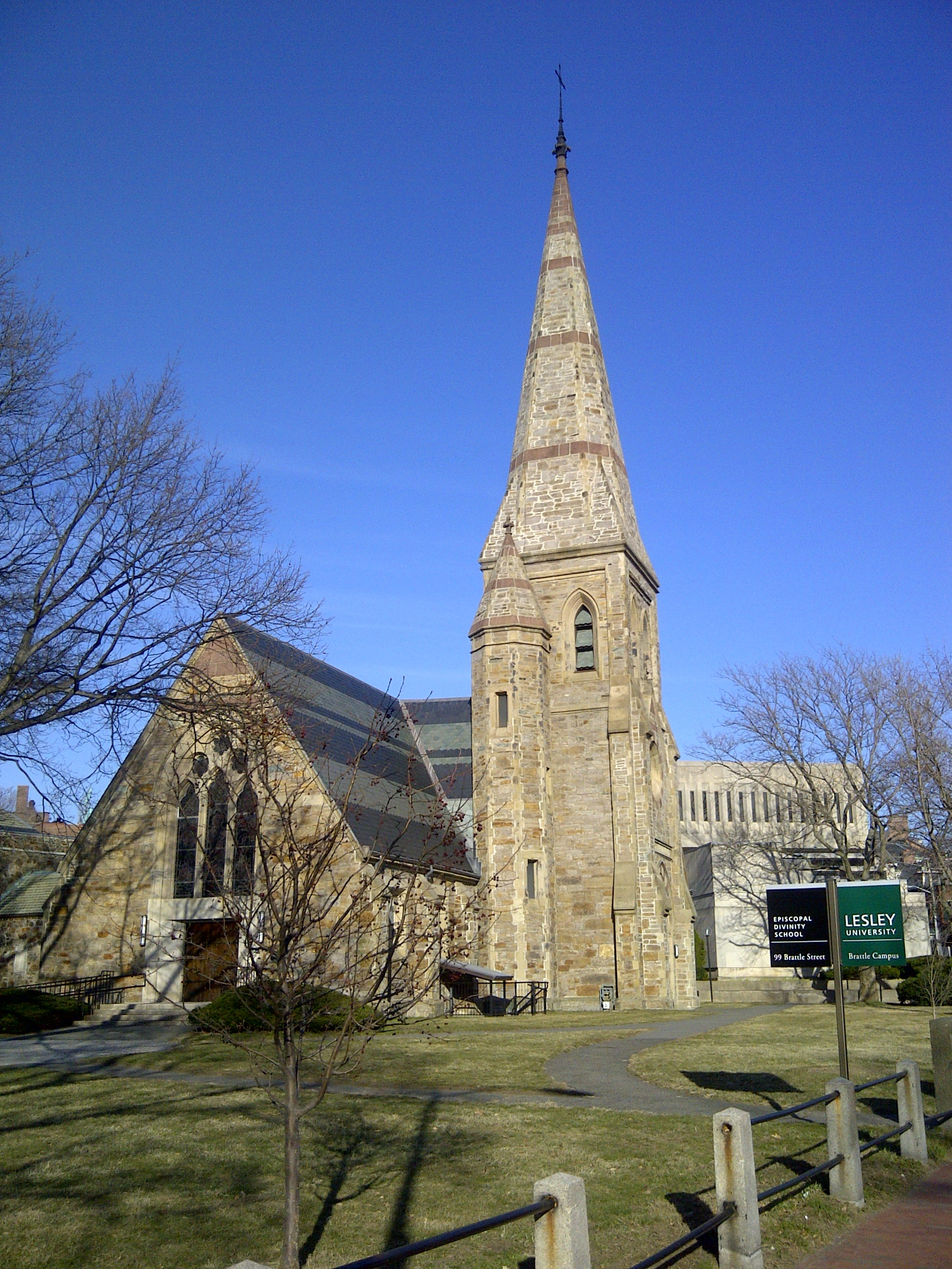 St. John's Chapel, Episcopal Divinity School on Brattle Street in Cambridge, Massachusetts.